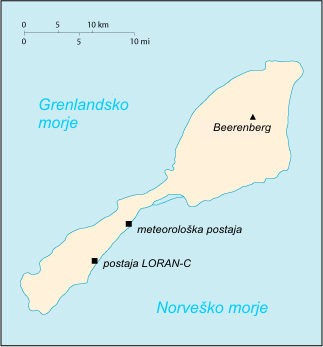 Map of Jan Mayen in Slovene.